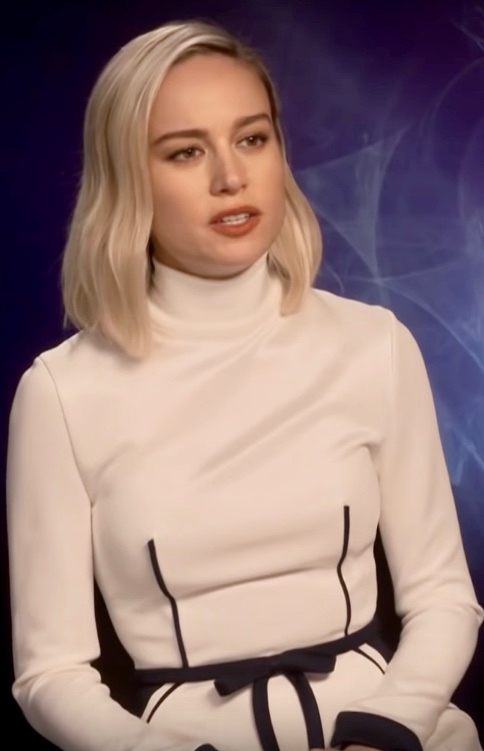 Brie Larson at an interview for Captain Marvel in 2019